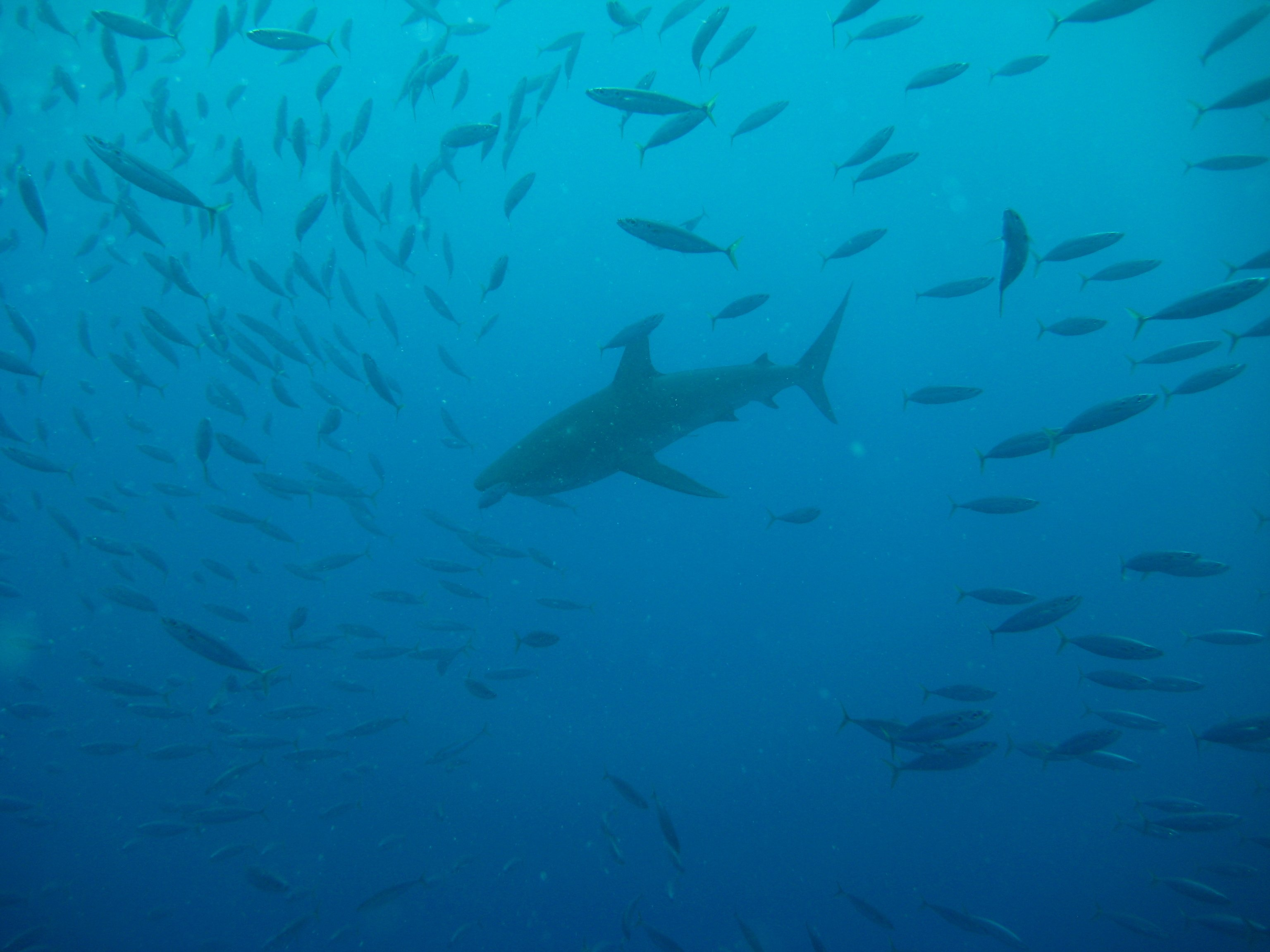 Hawaii, Oahu, North Shore.